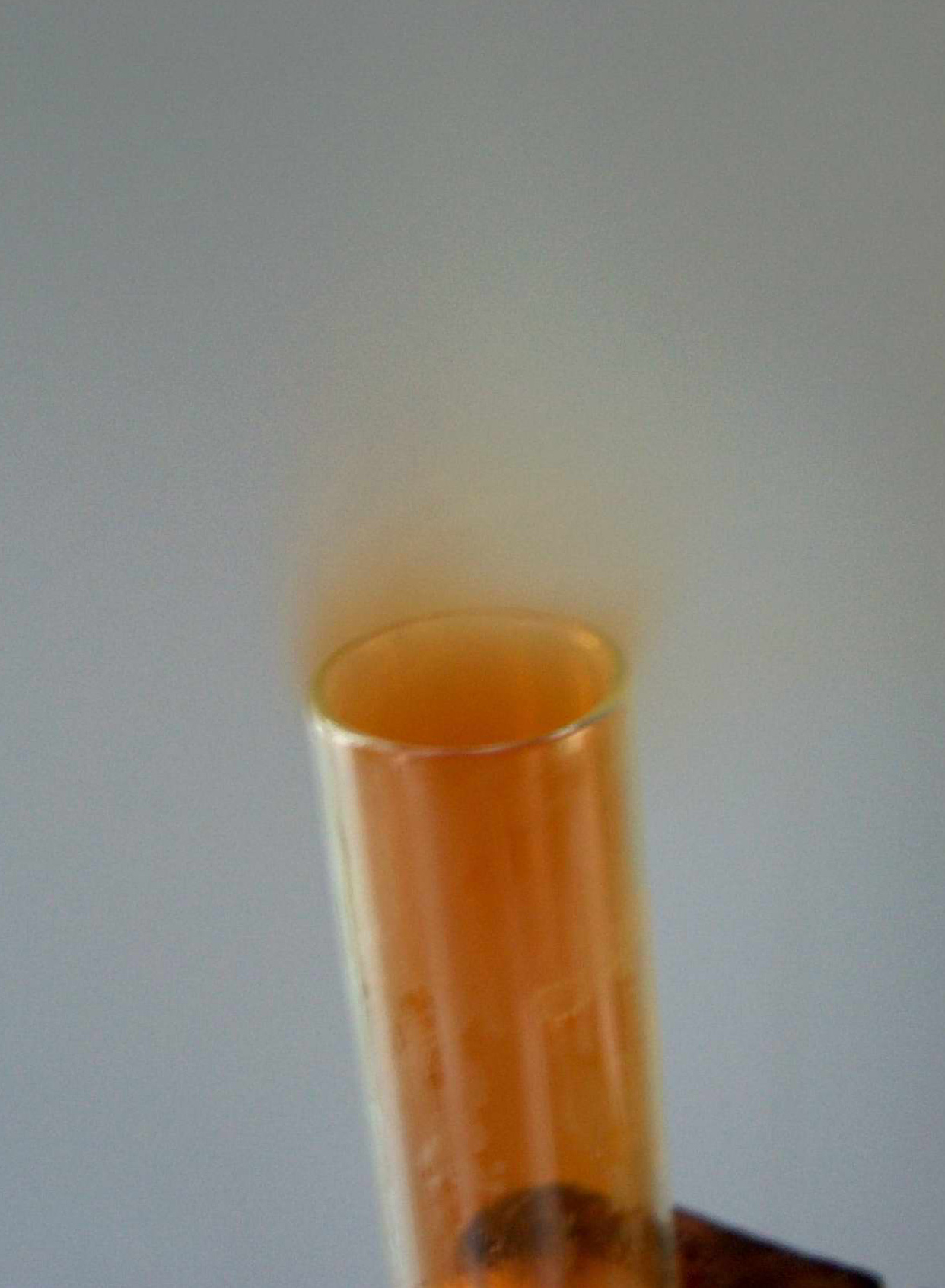 Nitrogen dioxide obtained in a test-tube